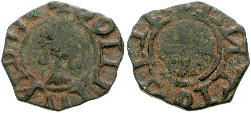 Crusaders, Antioch. Bohémond V. 1233-1251. Æ Pougeoise (17mm, 1.16 g, 12h). Group 4. Fleur-de-lis with petals turned down and up; pellets flanking Cross pattée; pellet in each quarter. Metcalf, Crusades -; CCS 120 var. (pellets in quarters of cross). Fine, earthen deposits. Likely a mule between groups 3 and 4. From the J. S. Wagner Collection.